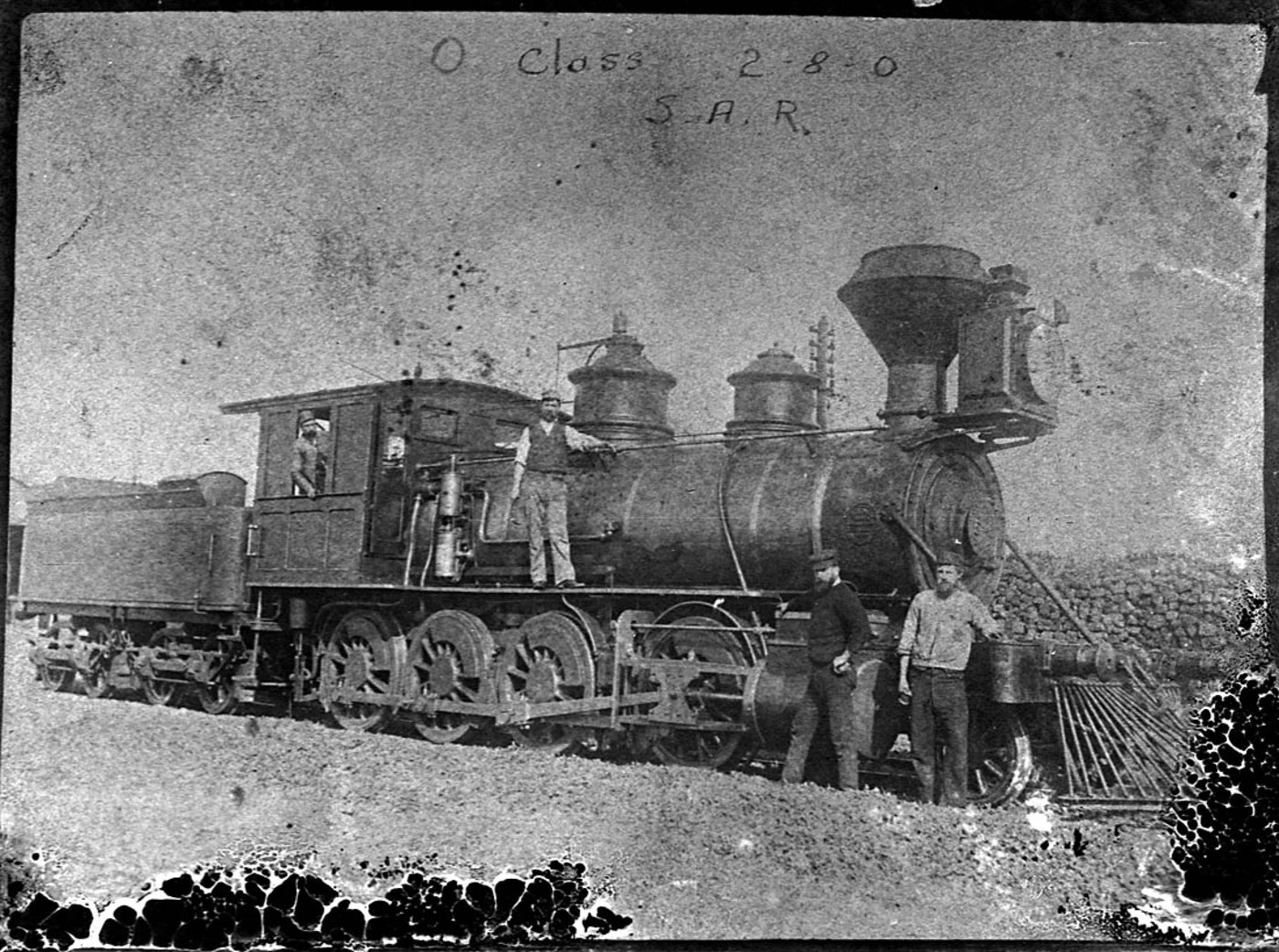 South Australian Railways' O class steam locomotive, ca. 1870 - copy photograph (1940s?)